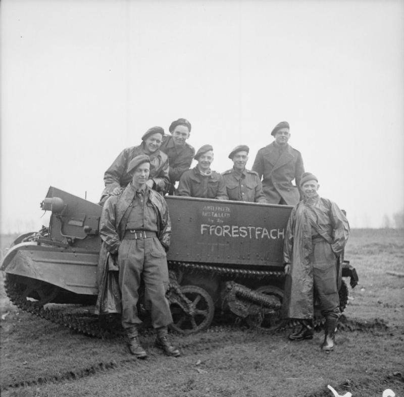 The British Army in North-west Europe 1944-45 Men of the carrier platoon of 3rd Monmouthshire Regiment, 11th Armoured Division, February 1945.